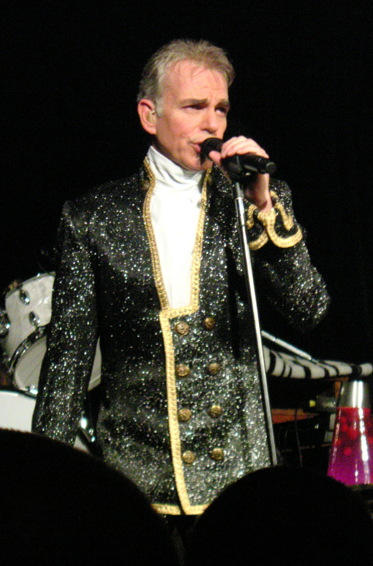 William Robert „Billy Bob“ Thornton in San Francisco, September 2007